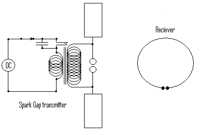 Experimental circuit used by Heinrich Hertz in 1887 to discover the existence of radio waves. It is a spark gap radio transmitter (left) consisting of a dipole antenna made of two horizontal wires with metal plates on the ends to add capacitance, with a spark gap between them, attached to an induction coil powered by a battery. Pulses of high voltage applied to the antenna by the induction coil cause sparks across the spark gap, which excite standing waves of current in the antenna, causing it to radiate electromagnetic waves (radio waves). The waves were detected by a crude receiver consisting of a resonant loop antenna (right) made of a circle of wire, with a micrometer spark gap between its ends.